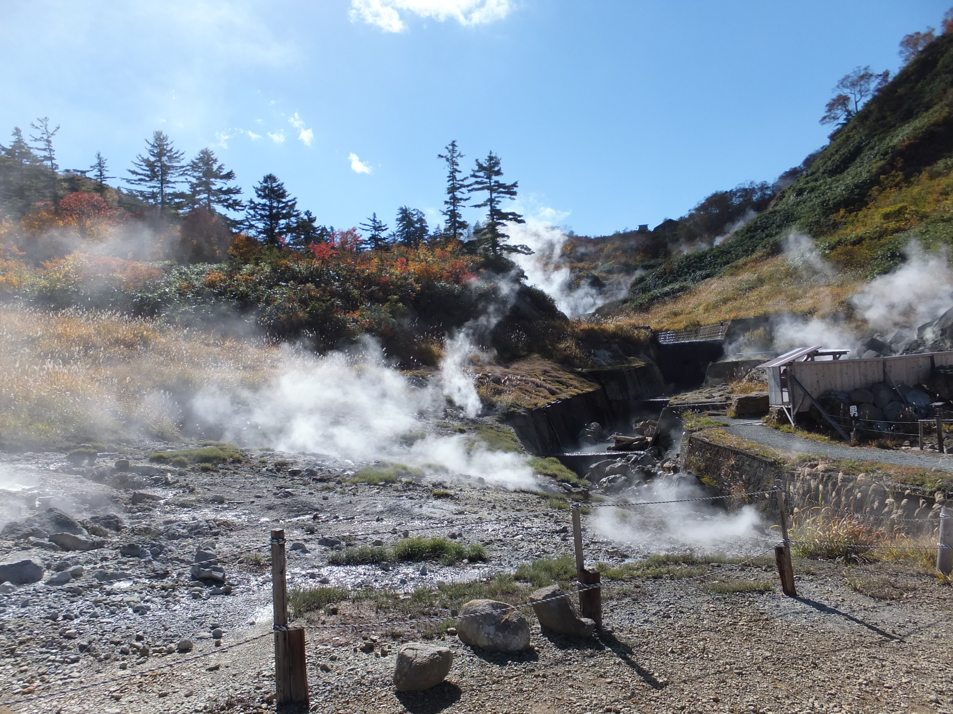 Volcanic valley of Goshogake hot spring (onsen), Kazuno, Akita, Japan.